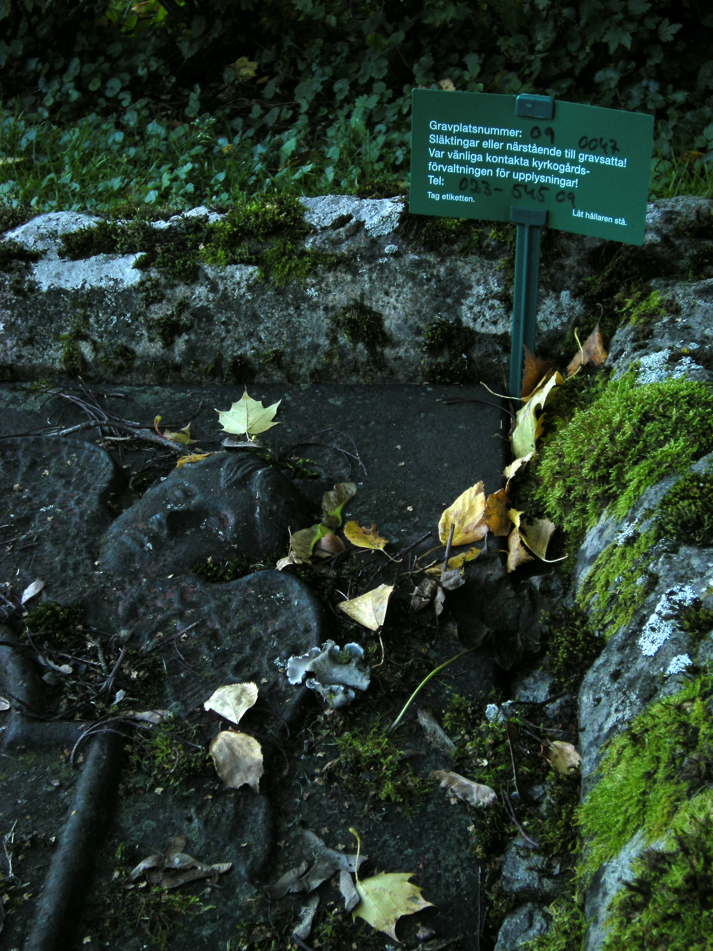 grave of Anders Polhammar